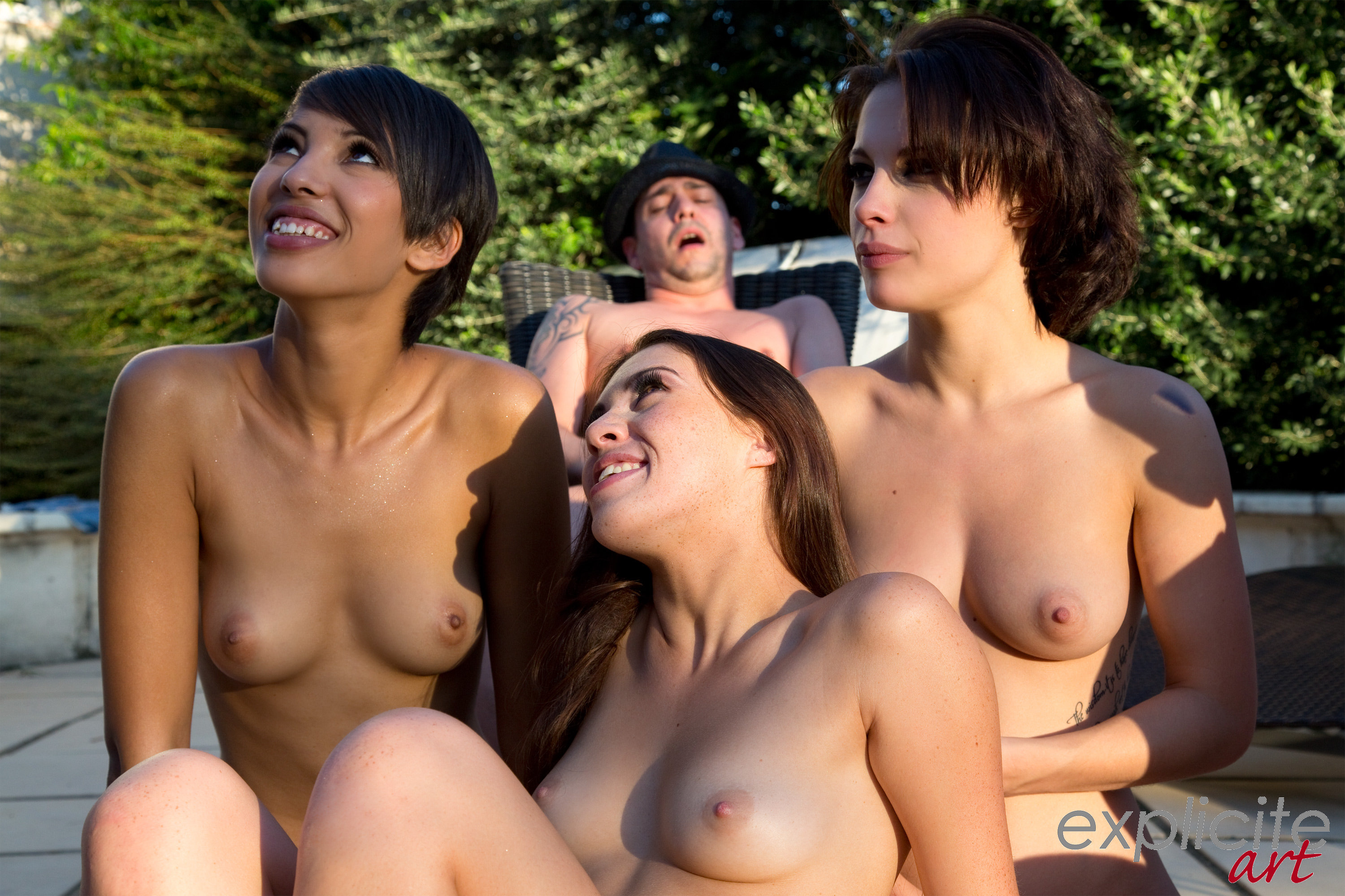 Jasmine Arabia, Tiffany Doll, Nikita Bellucci and (in the background) Titof on the set of Gonzo user manual.